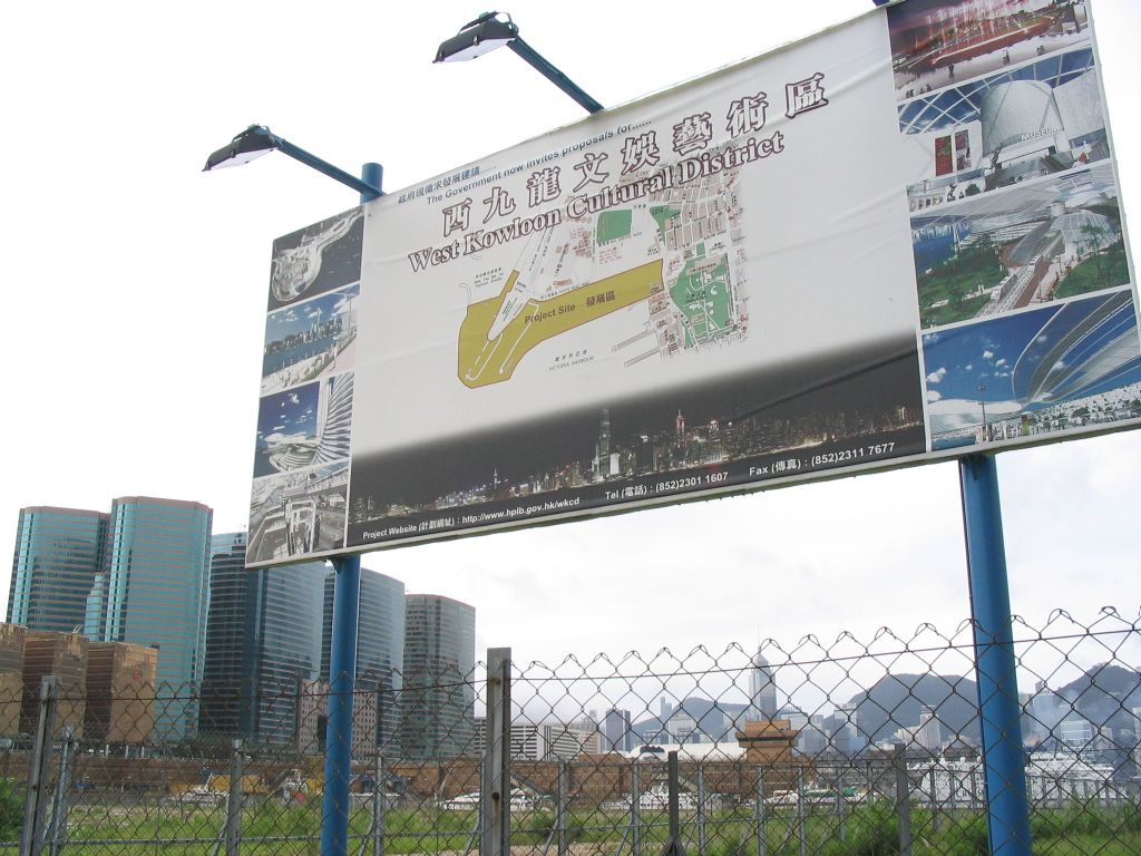 西九龍文娛藝術區 West Kowloon Cultural District